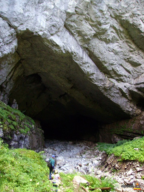 A picture I took, in a hike.